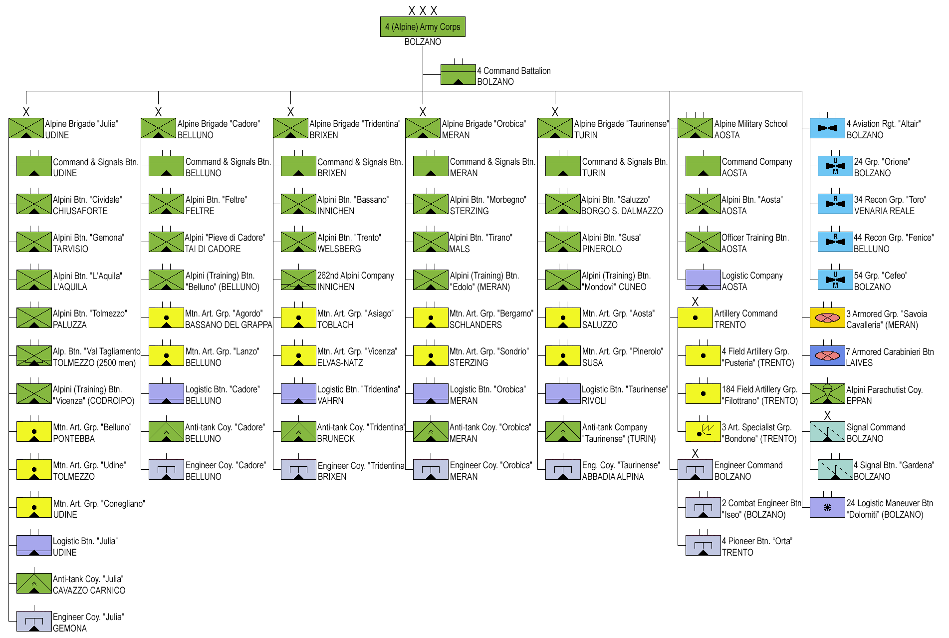 Italian Army - 4th Alpine Army Corps structure in 1986 after the 1975 reform phase came to an end